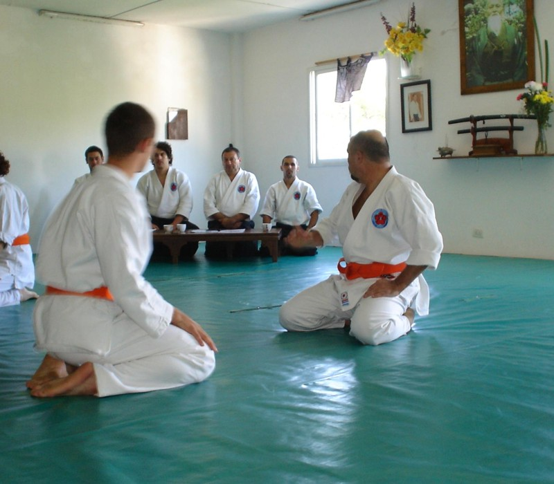 Third kyu test in OAA.